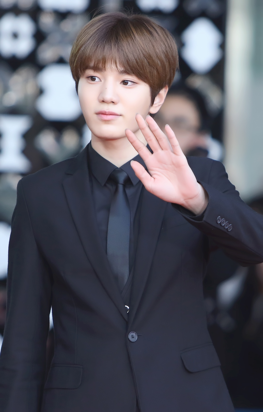 Lee Sung-jong at the Opening's SMTown Coex Artium on January 13, 2015.